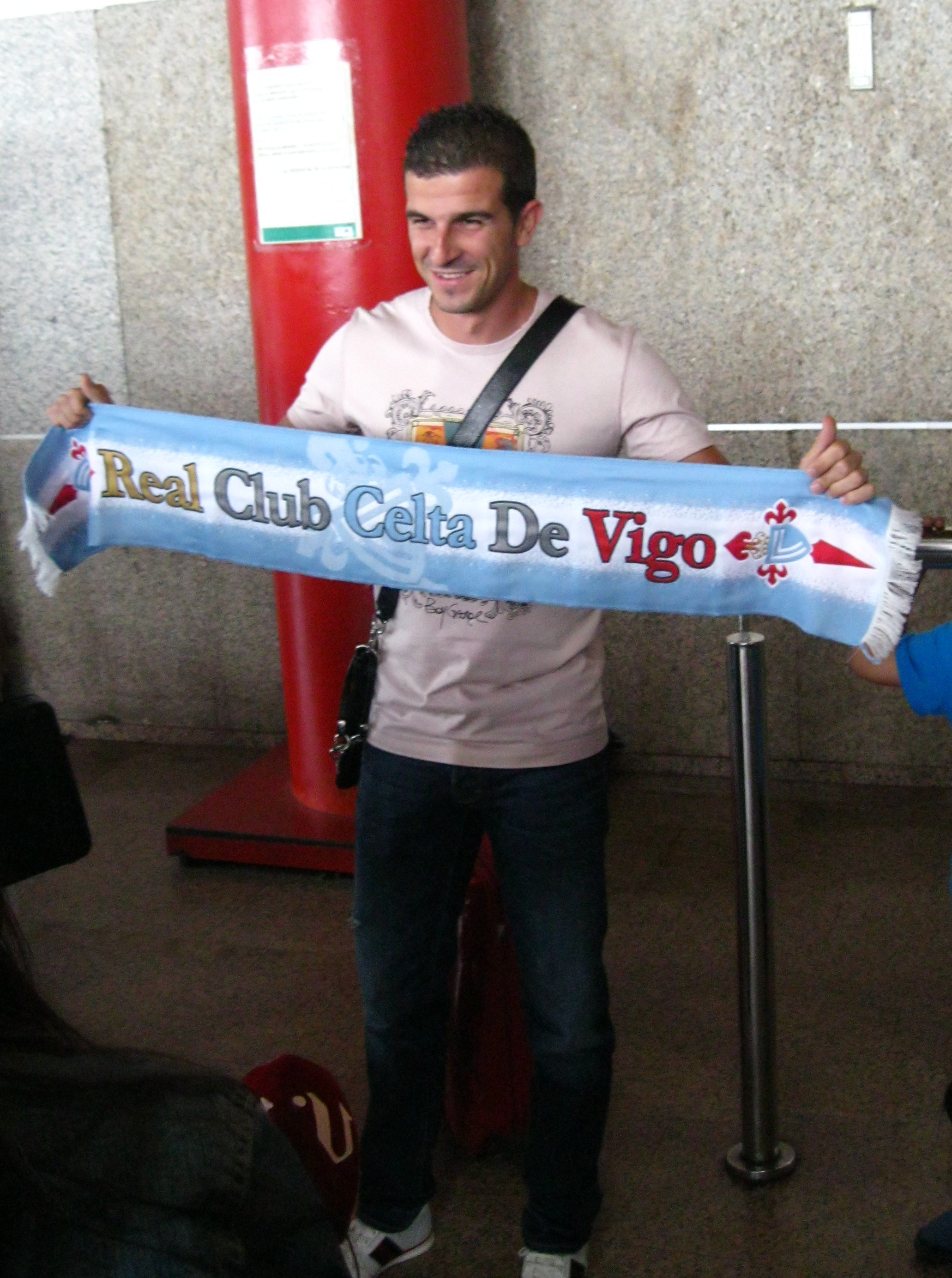 Spanish footballer Javi Varas arriving at the Vigo-Peinador Airport.